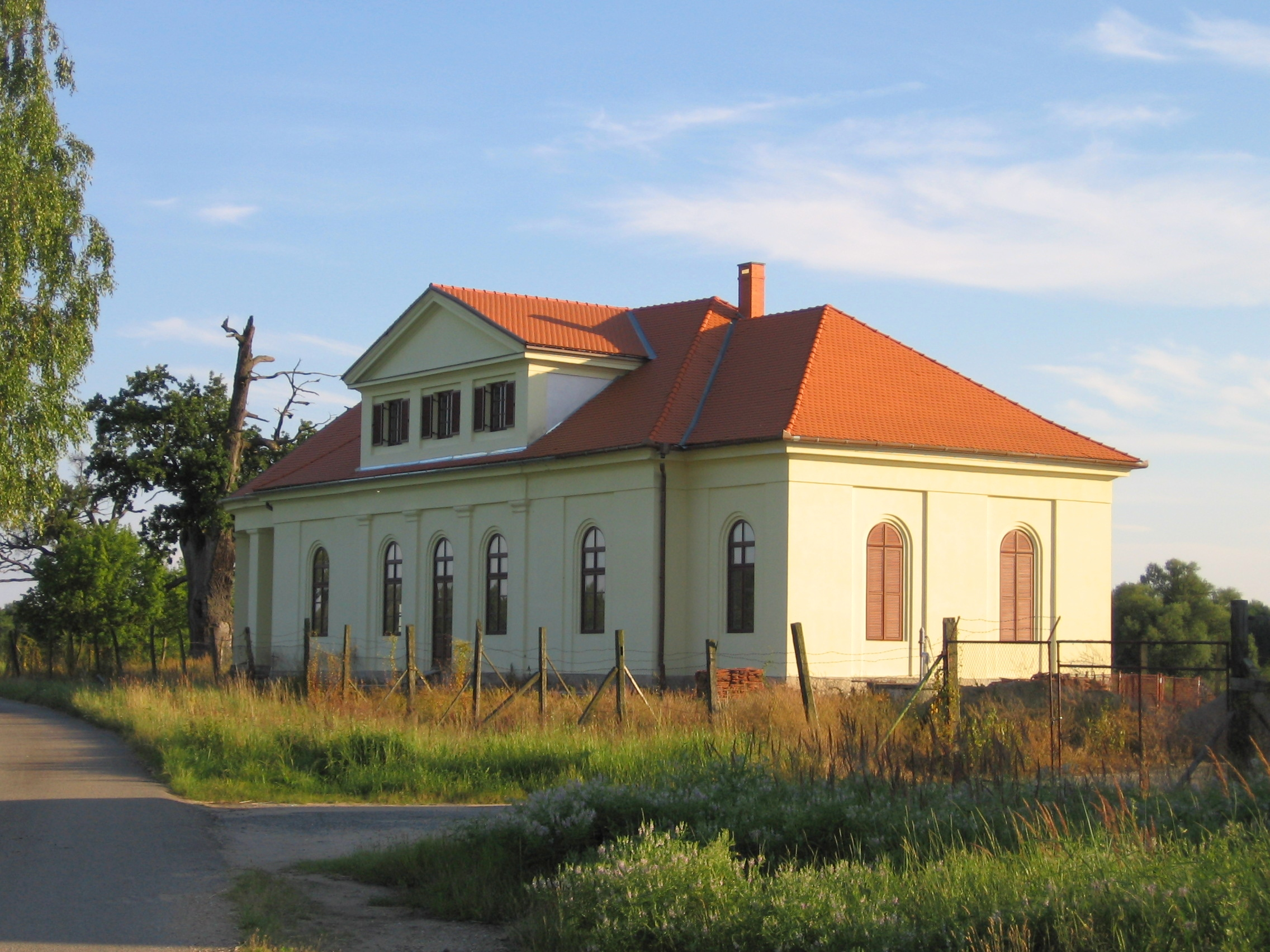 Castle Lány, Lednice–Valtice Cultural Landscape.